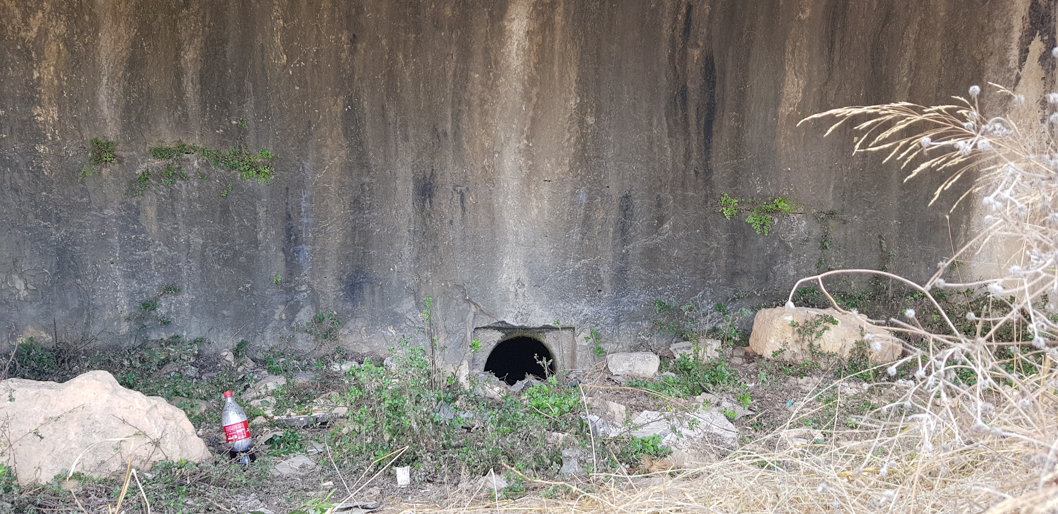 Open a burial cave near Hirbet Tibne